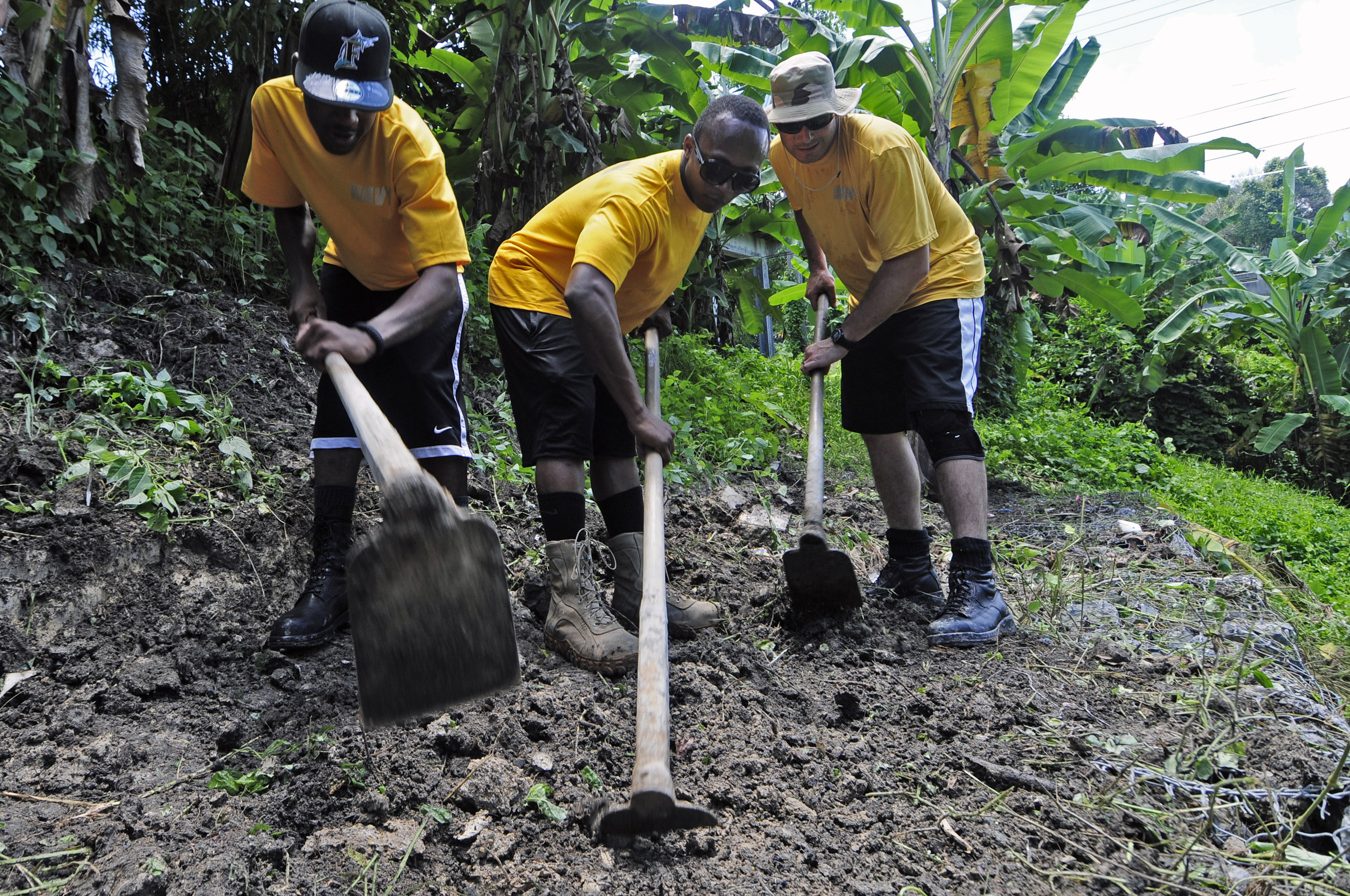 PHANG NGA, Thailand (Aug. 23, 2011) Engineman Fireman Brodrick Smith, left, from Assault Craft Unit (ACU) 1, Boatswain's Mate Seaman Amandor Malone, from Beach Master Unit (BMU) 1 and Chief (select) Quartermaster Michael Leer, from the amphibious dock landing ship USS Comstock (LSD 45), participate in a community service project at the Home and Life Orphanage. Comstock, ACU-1 and BMU-1 are part of the Boxer Amphibious Ready Group and are underway in the U.S. 7th Fleet area of responsibility during a western Pacific deployment. (U.S. Navy photo by Mass Communication Specialist 2nd Class Joseph M. Buliavac/Released)